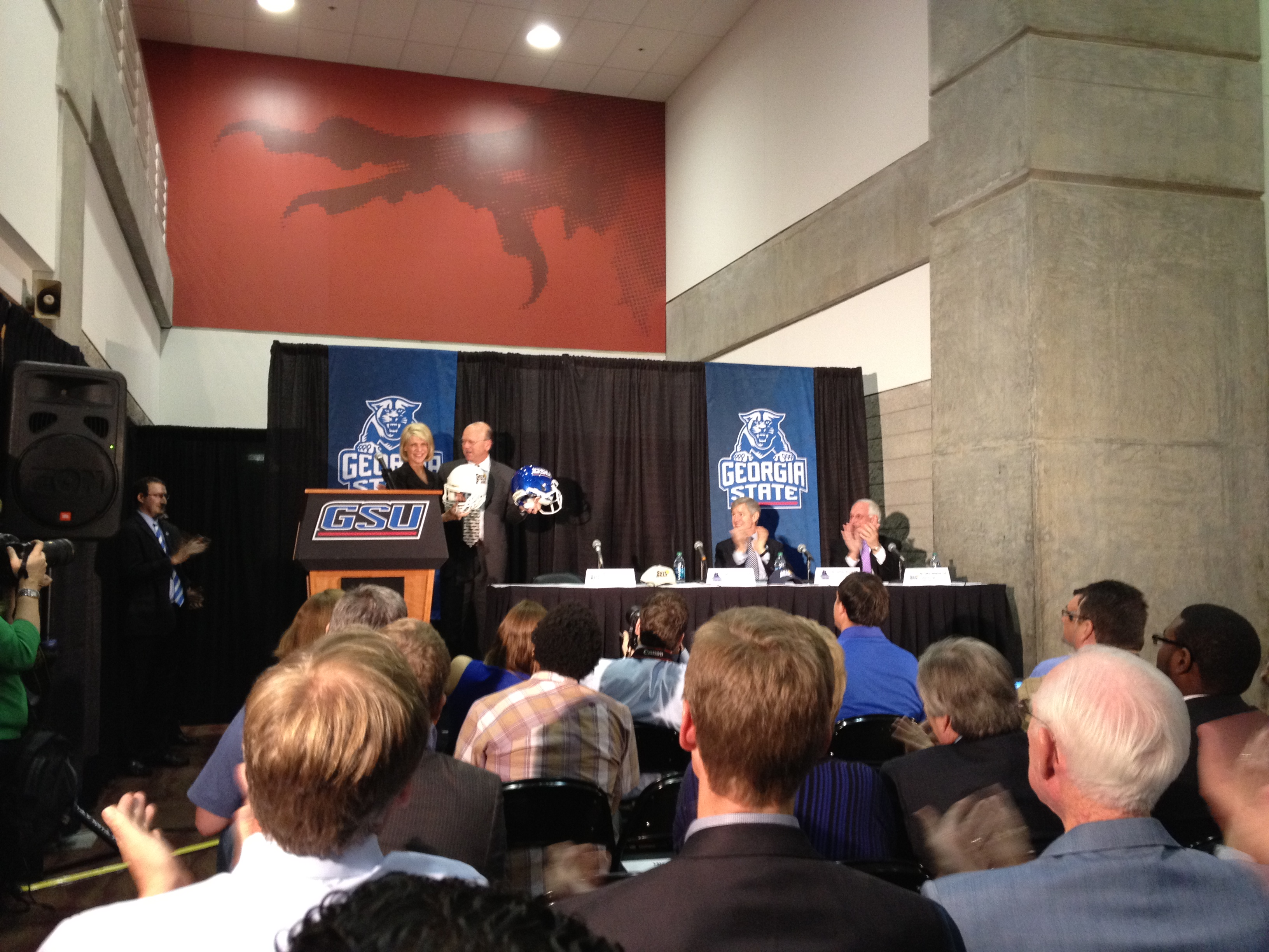 Georgia State accepting an invitation to the Sun Belt Conference on April 9th 2012 at the Georgia Dome